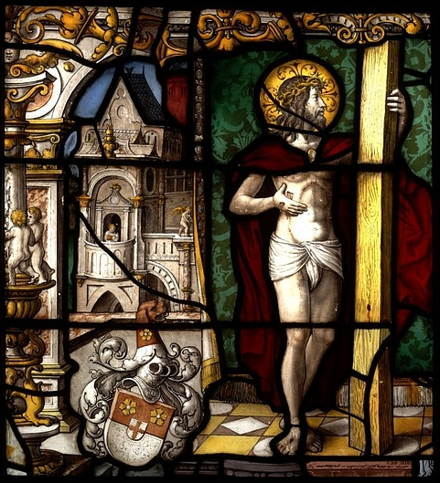 Man of Sorrows, stained glass panel from Steinfeld Abbey